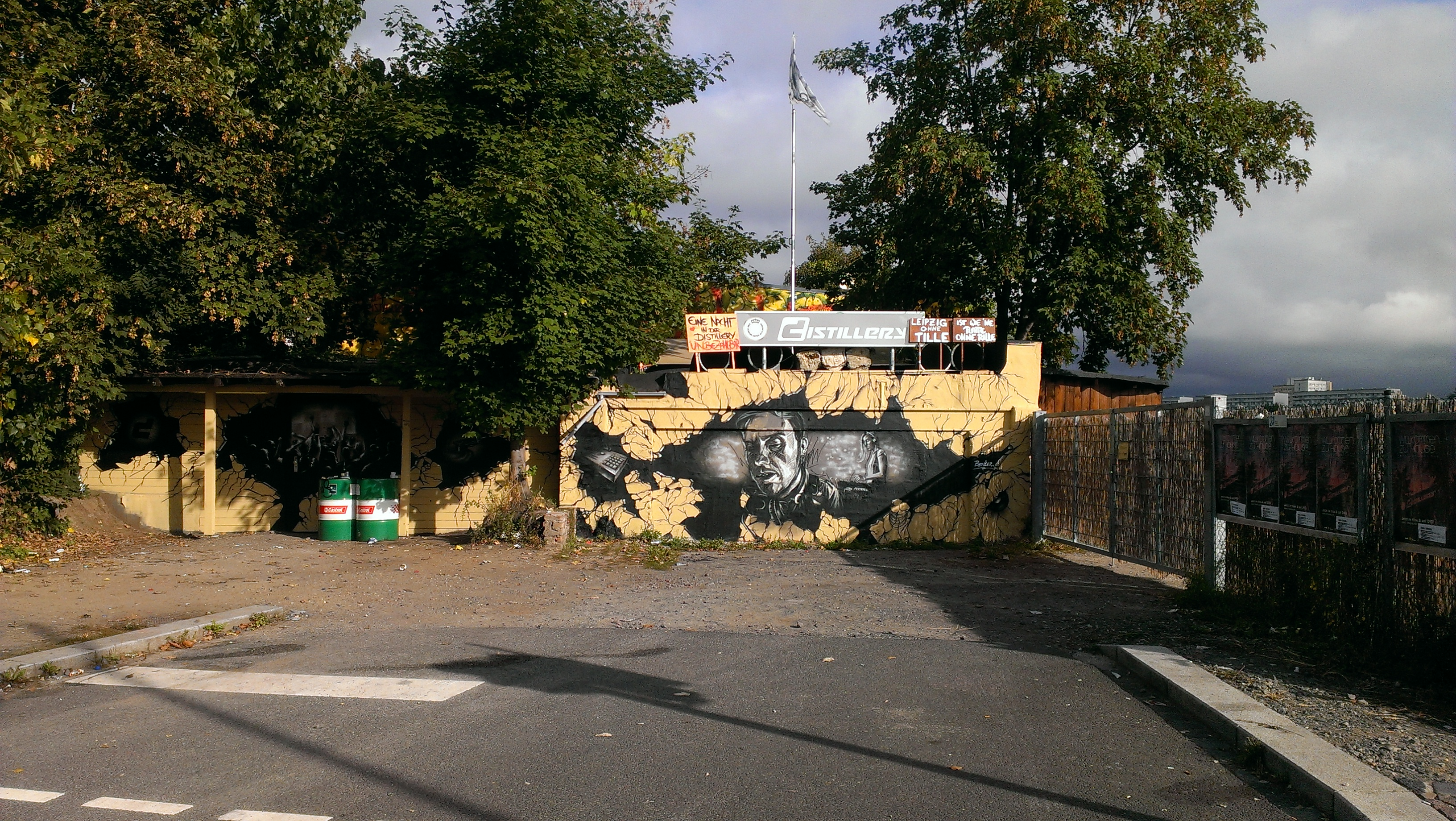 distillery